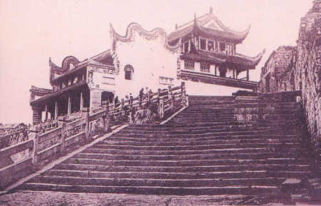 Tianxin Pavilion in 1912. The stone steps was built in the early Ming dynasty (1368–1644). Tianxin Pavilion is a Chinese pavilion in downtown Changsha, Hunan, China. It is adjacent to Changsha Bamboo Slips Museum and Baisha Well.